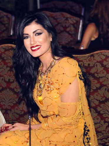 Helly Luv poses before her performance for Queen Elizabeth II birthday celebration June 21, 2014